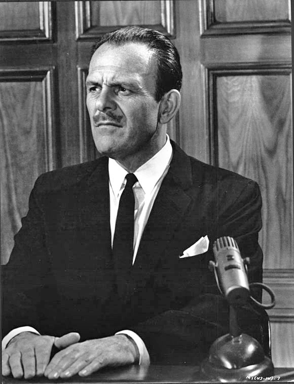 Promotional still of Terry-Thomas (1965)